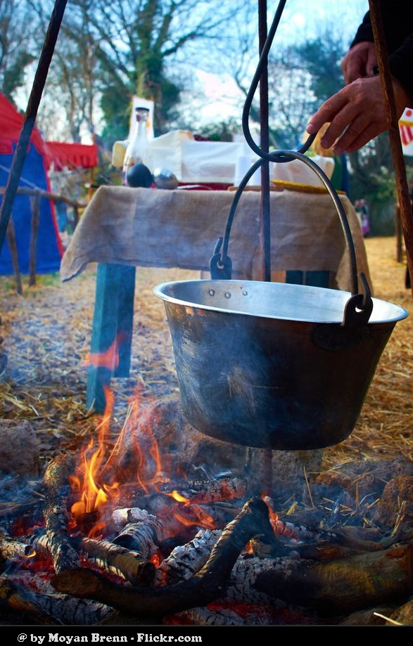 view of firecamp during a renaissance fair in the Italian town of Monterano abbey